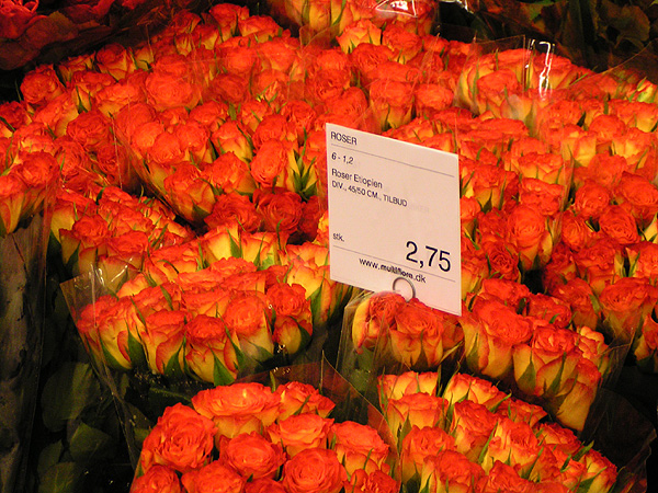 Roses imported from Ethiopia